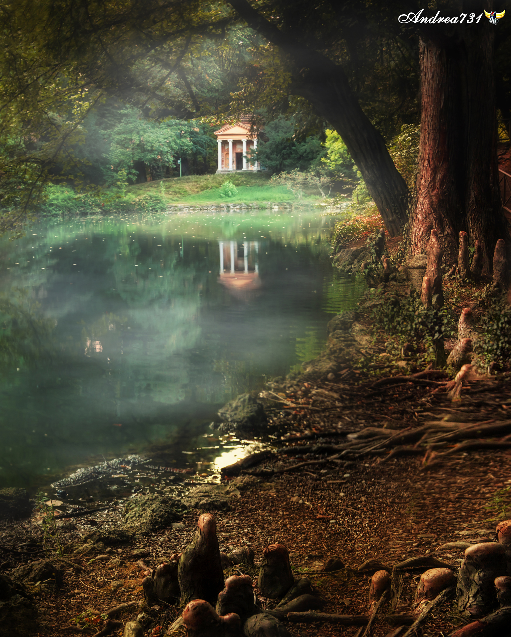 This is a photo of a monument which is part of cultural heritage of Italy.